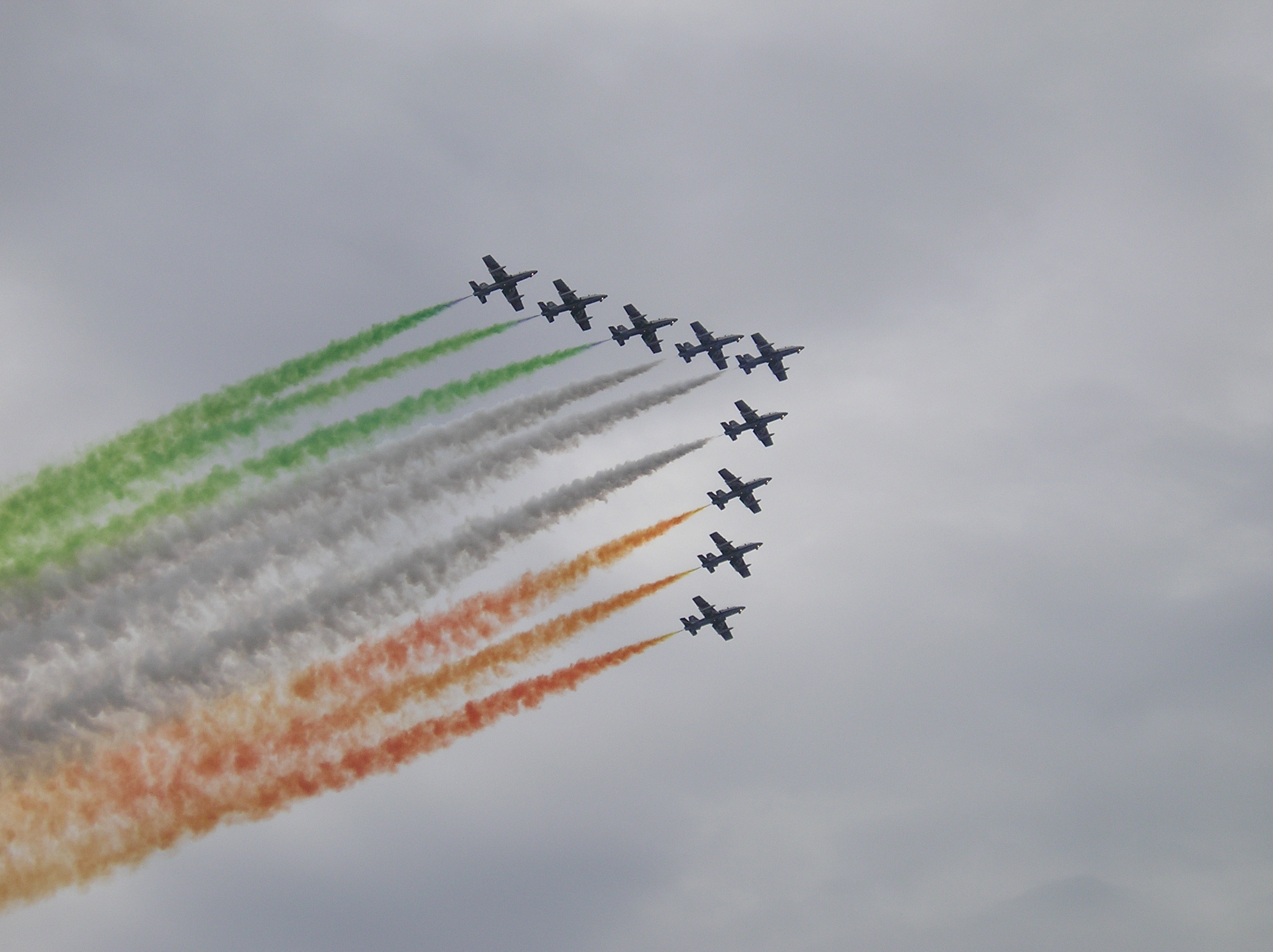 Airshow at airbase Volkel during open day Royal Netherlands Air Force 2004 (colors)